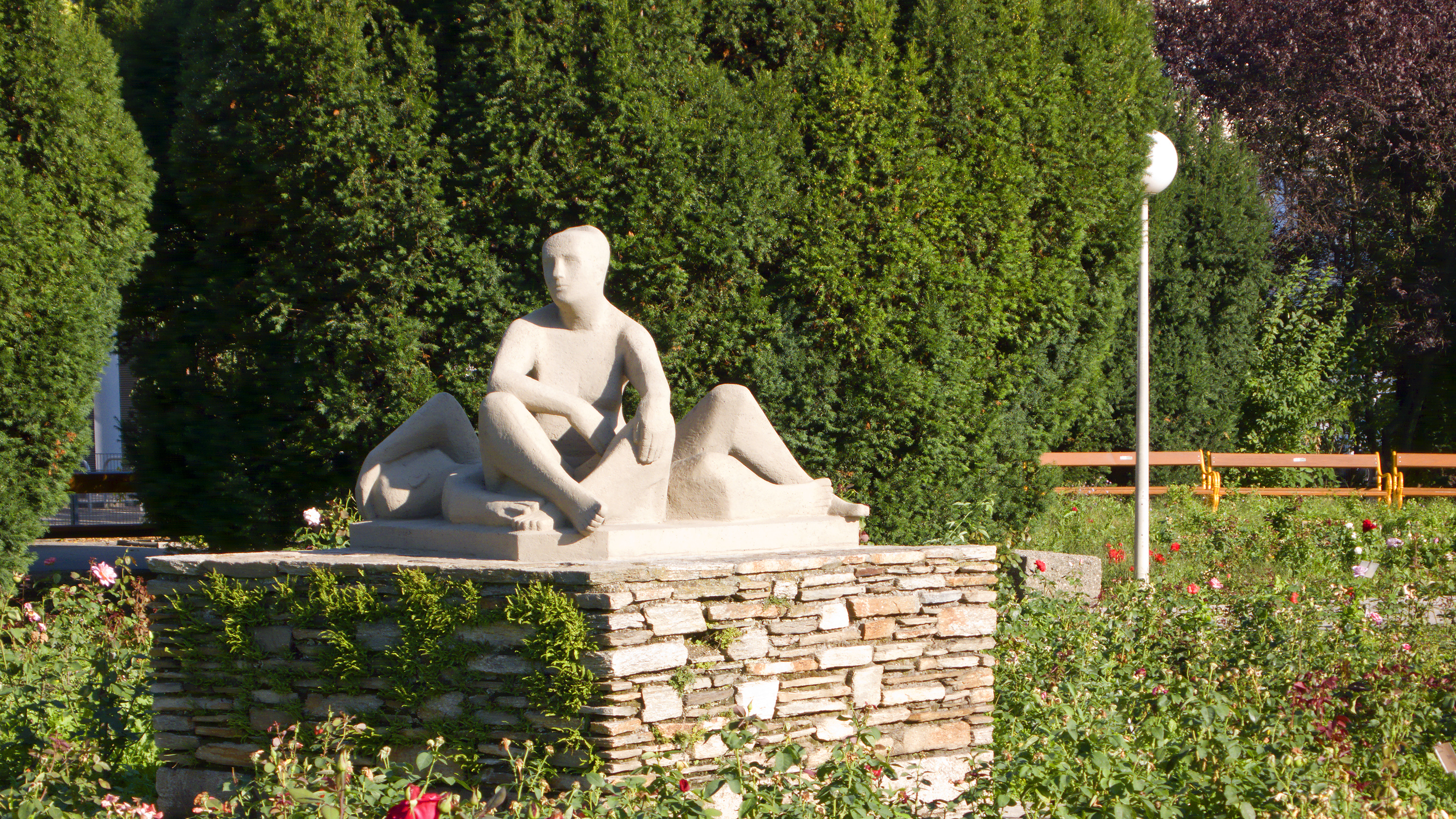 Public park Wettsteinpark in Vienna Leopoldstadt, Sculpture "Sitting woman and lying man"